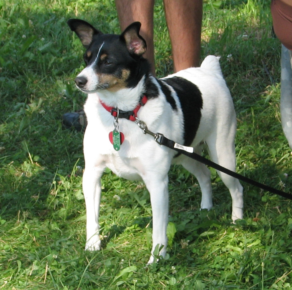 Toy Fox Terrier